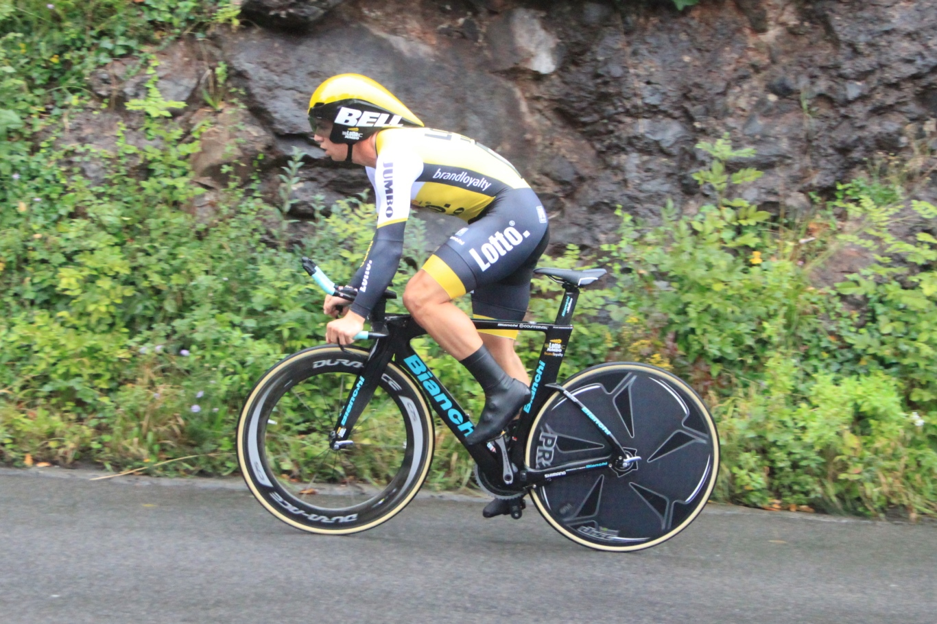 Dylan Groenewegen, the leader of the Lotto NL - Jumbo cyccling team on the 2016 Tour of Britain powers his was up Bristol's Bridge Valley Road during an individual time trial.